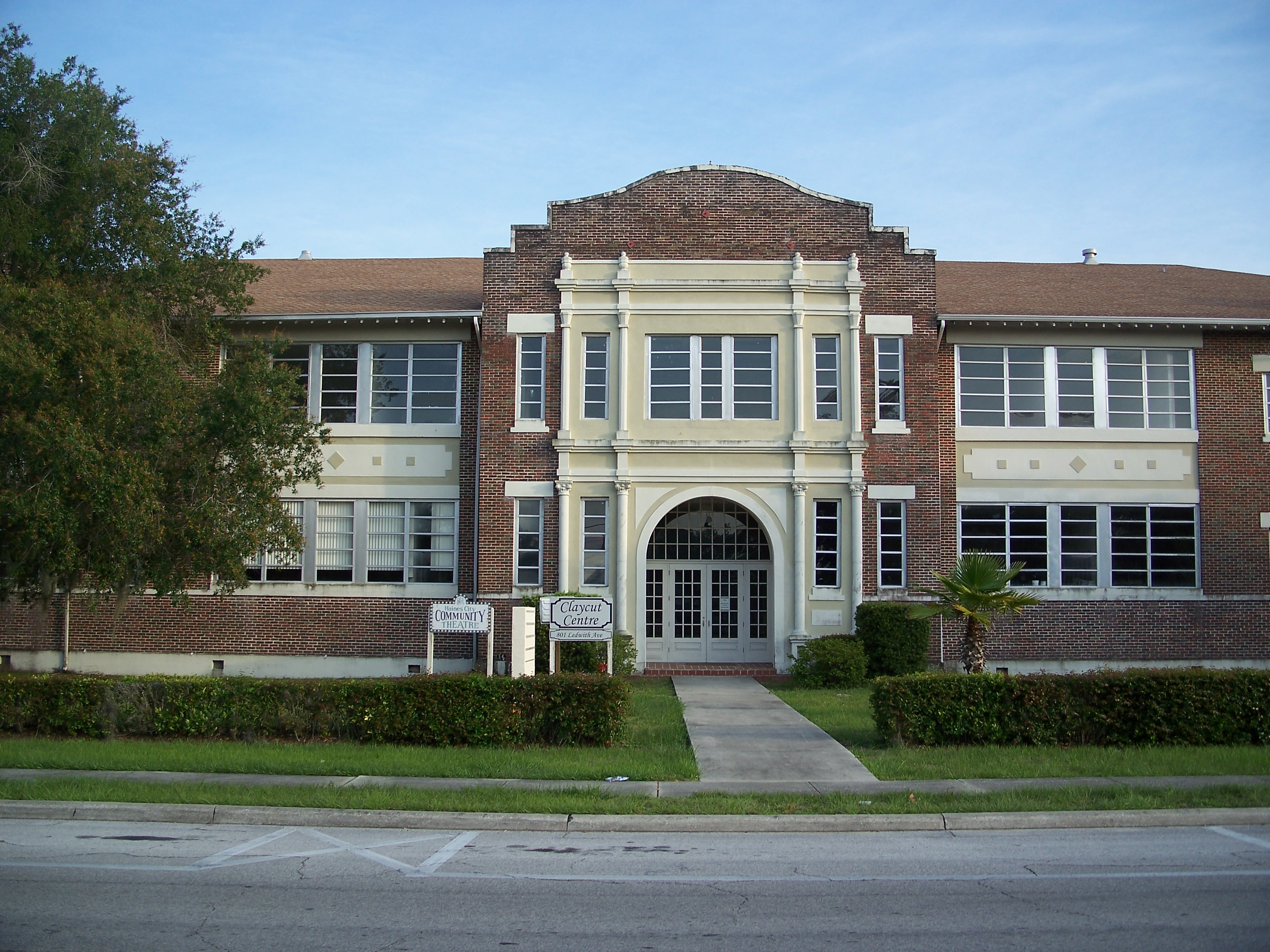 Haines City: Old Central Grammar School: Now used as a local community theater